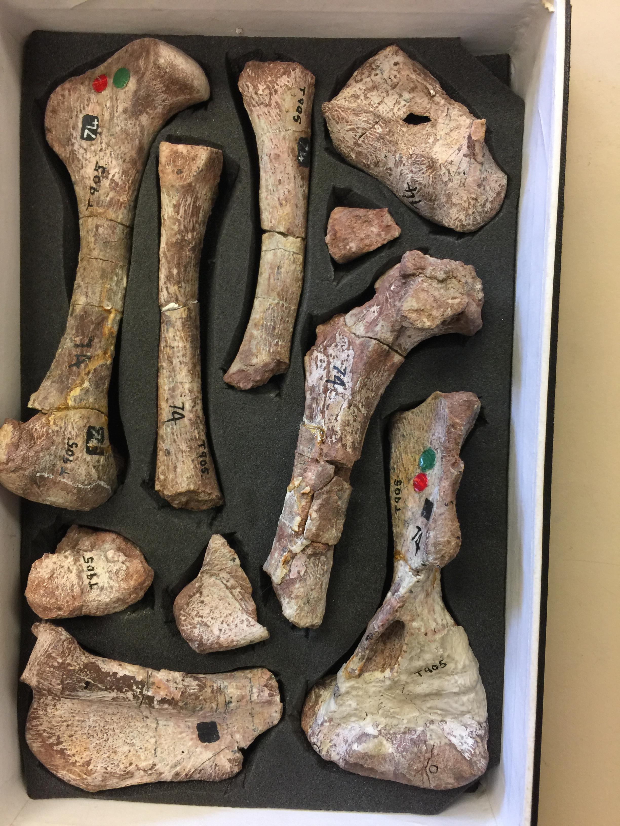 Numerous postcranial bones of Cricodon metabolus